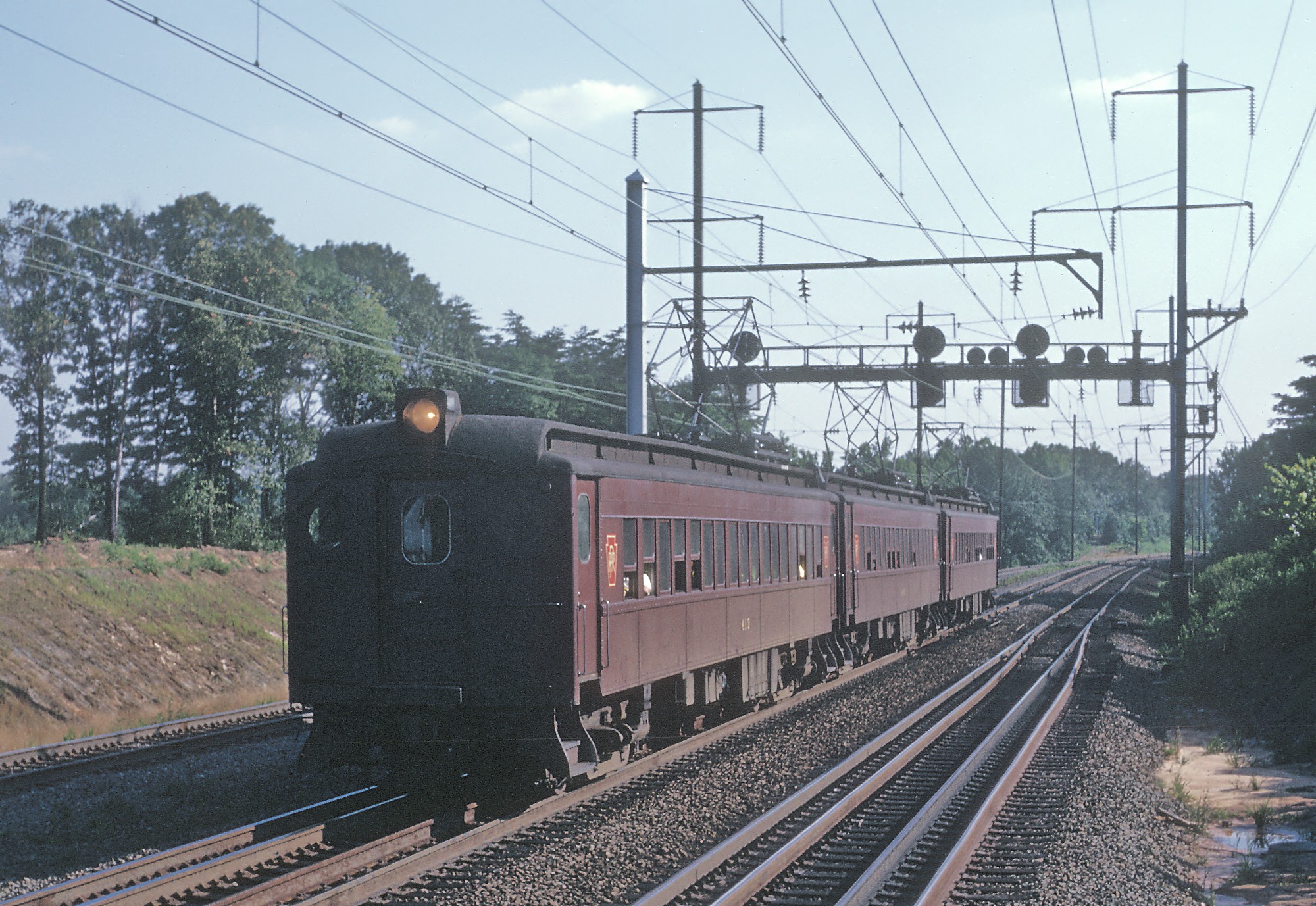 A three car train of PRR MP54s in Penn Central Washington-Baltimore service seen near Capital Beltway station in July 1970